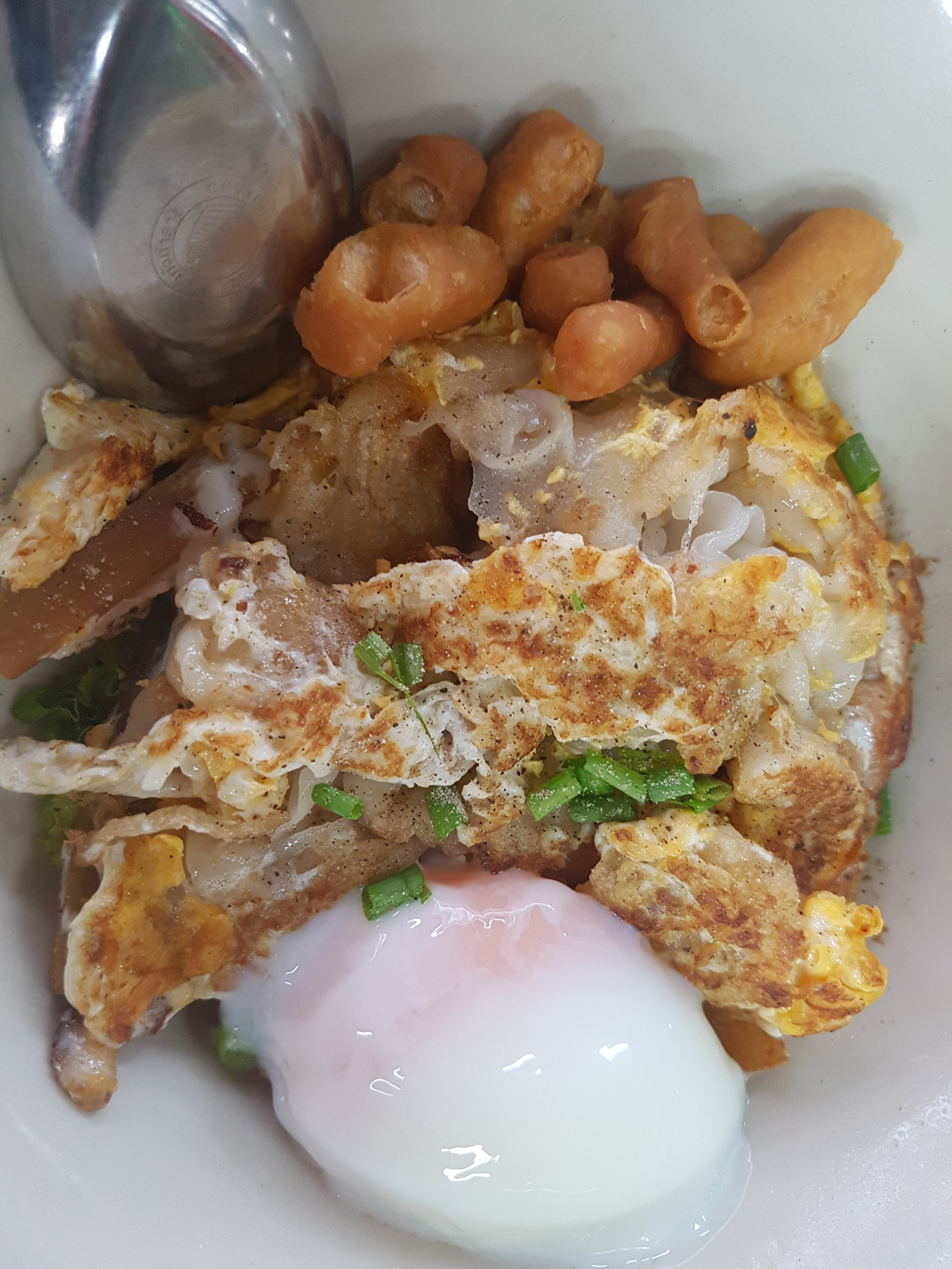 Noodles stir-fried with chicken (ก๋วยเตี๋ยวคั่วไก่) as sold in Bangkok, Thailand.